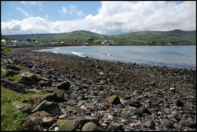 Ballygally Bay near Larne When approaching from the Belfast/Larne direction Ballygally (also “Ballygalley”) Bay remains hidden until Ballygally Head is passed. The bay and surrounding hills unfold in a most attractive manner. Most of the bay is large pebbles with a small sandy beach at the far end. This is the view from beside the small slipway with Ballycoos and Ballygawn visible in the background.